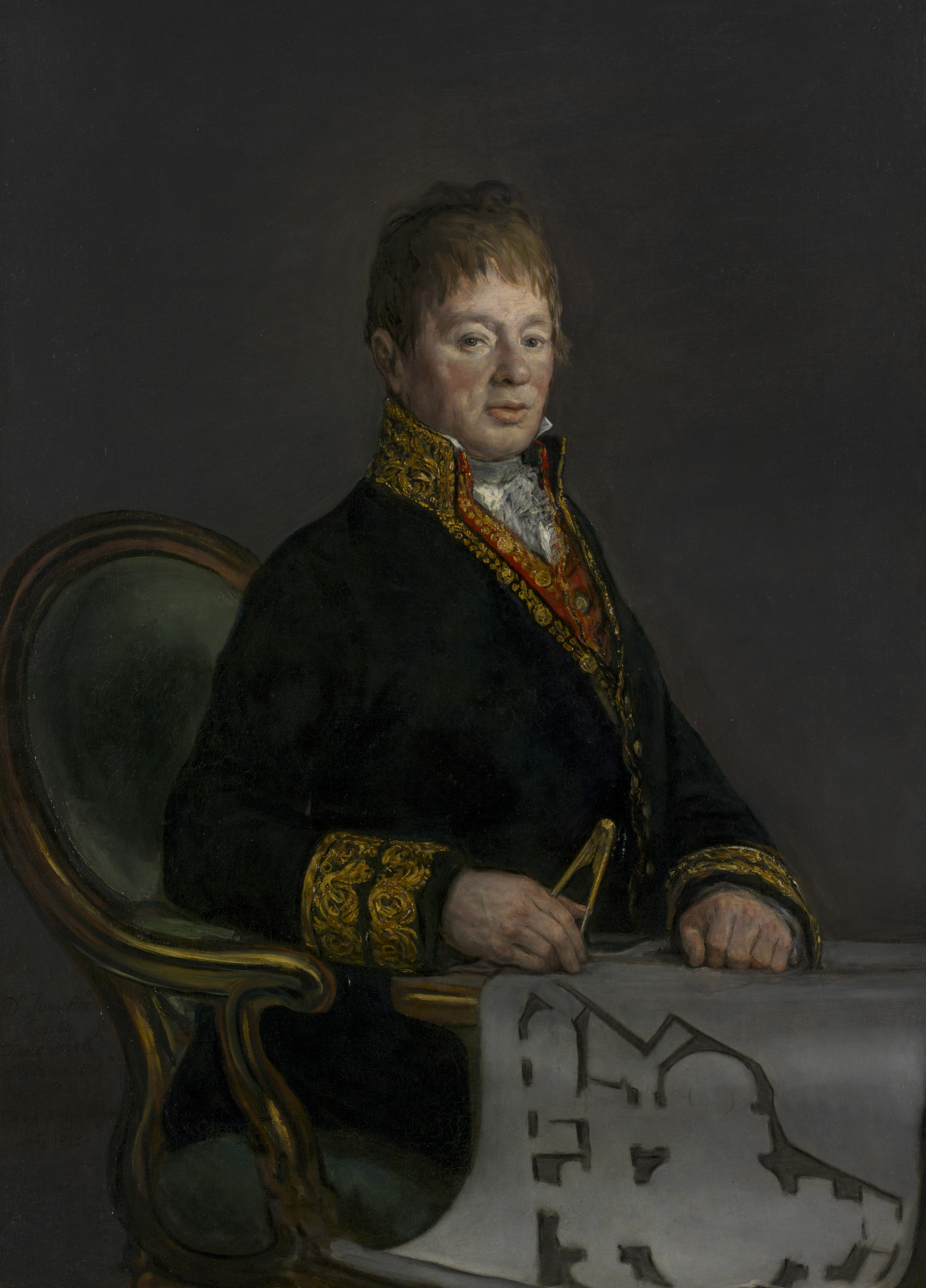 This portrait both testifies to Goya’s friendship with Cuervo and presents the sitter as a cutting-edge intellectual. Director of the Royal Academy of San Fernando, the official academy for artists and architects in Spain, Cuervo appears with his plan for the recent renovation of Madrid’s Church of Santiago. The jacket with red and gold brocade identifies him as a member of the academy.